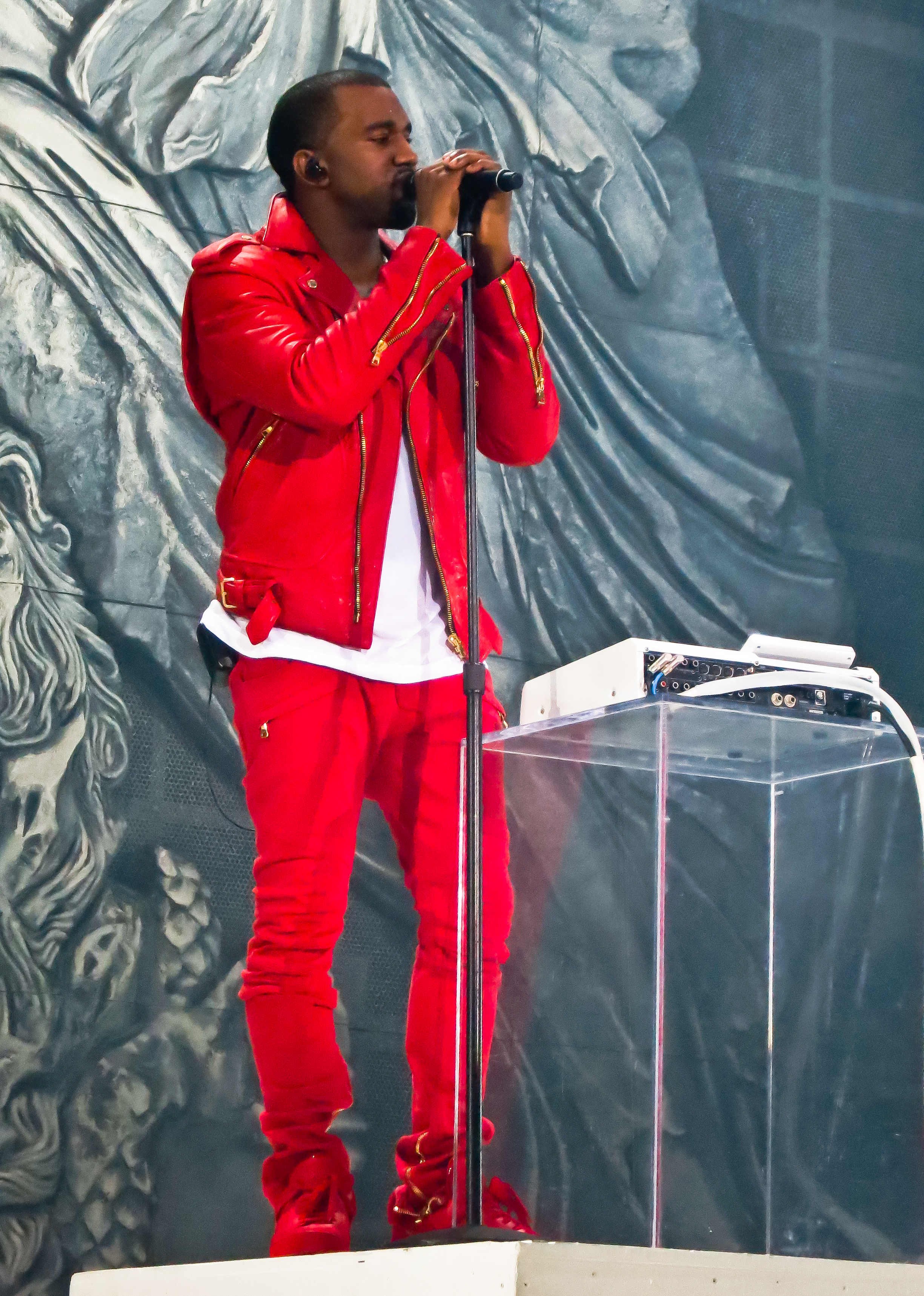 Kanye West performing at Revel Ovation Hall in Atlantic City, NJ on July 7, 2012